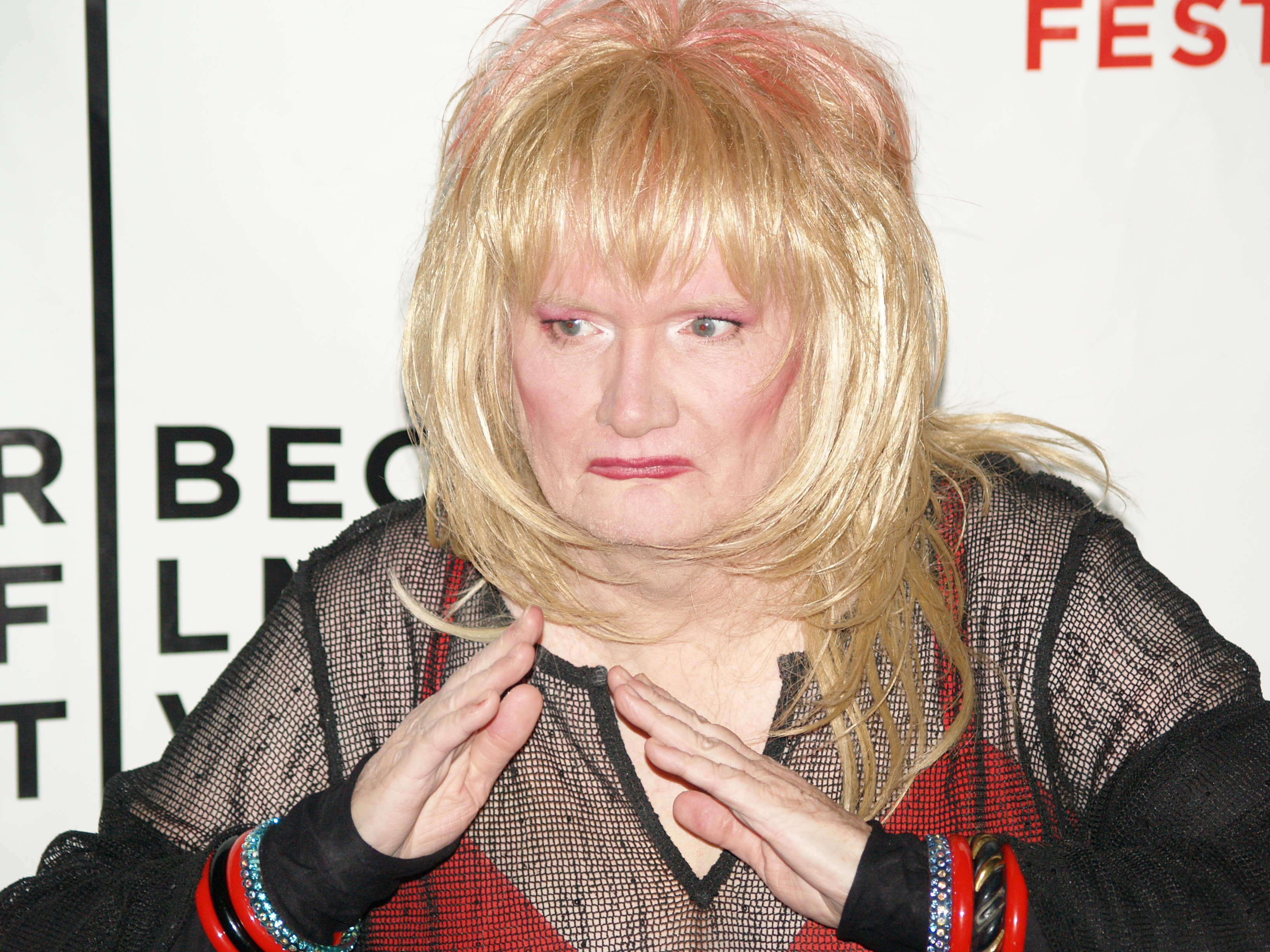 Jayne County at the premiere of Squeezebox! at the 2008 Tribeca Film Festival.